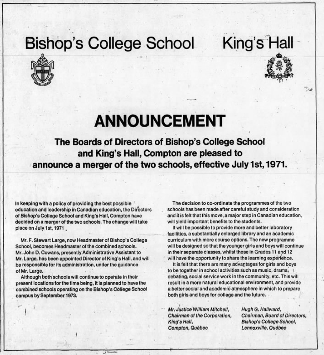 BCS/KHC Announcements